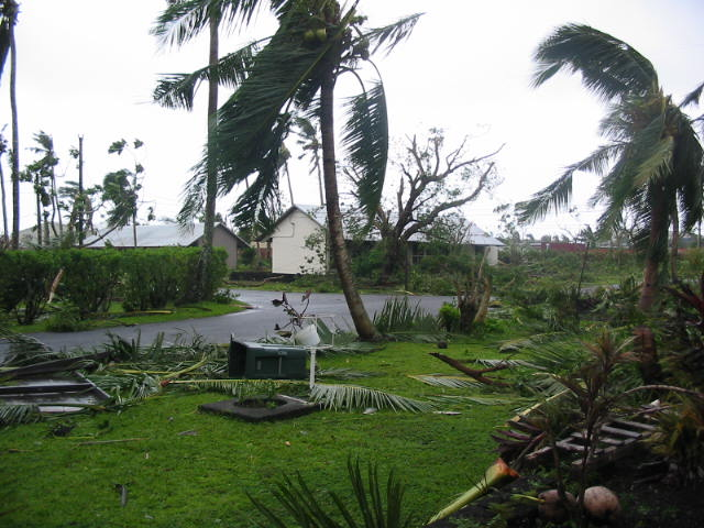 This image shows some of the damage caused by Cyclone Heta to a neighborhood in American Samoa.